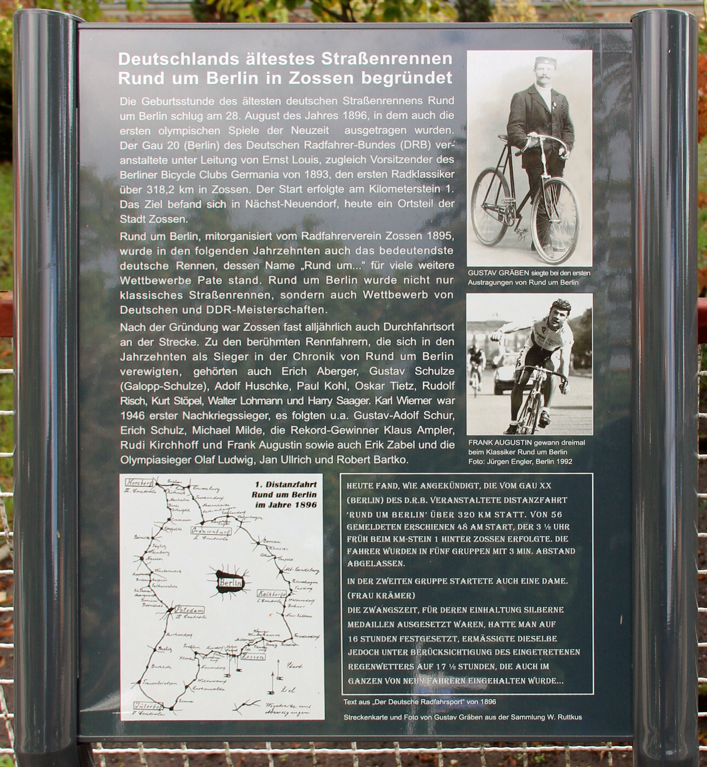 Memorial plaque, Deutschland ältestes Straßenrennen, Mittenwalder Straße 10, Zossen, Deutschland